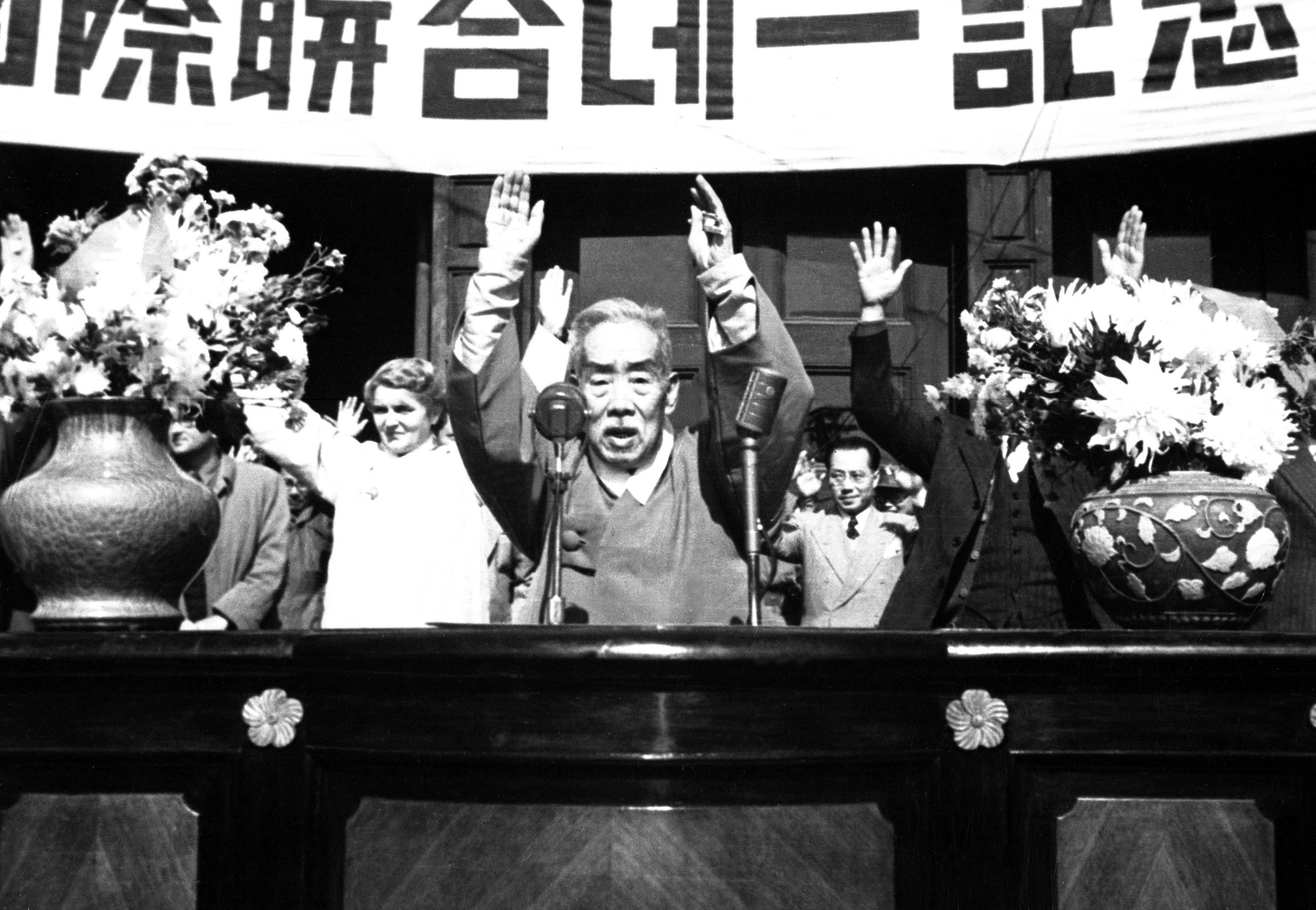 Si Young Lee (이시영) The Hon. S.Y. Lee, Vice President of South Korea, leads cheers at the close of the UN Day ceremony at Seoul. October 24, 1950. Sgt. Ray Turnbull. (Army) NARA FILE #: 111-SC-35191 WAR & CONFLICT BOOK #: 1379